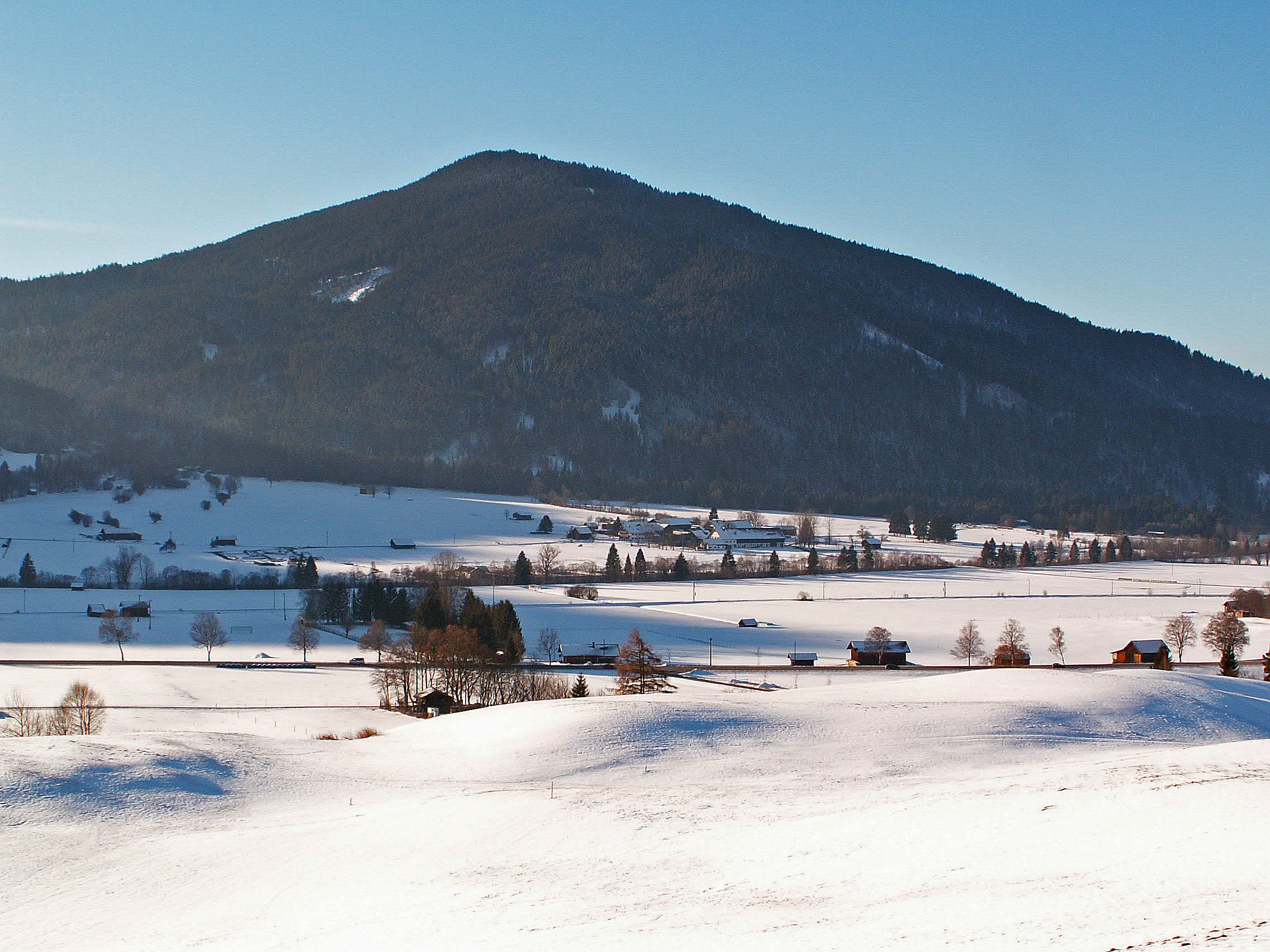 Scherenau mit Hochschergen, Unterammergau